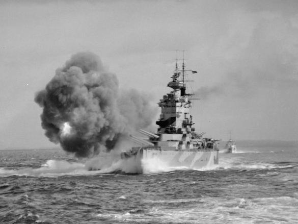 HMS Nelson firing her 16-inch guns during a practice shoot of gunnery trials and exercises after her repair. Note how the massive muzzle blast churns up the water to starboard.